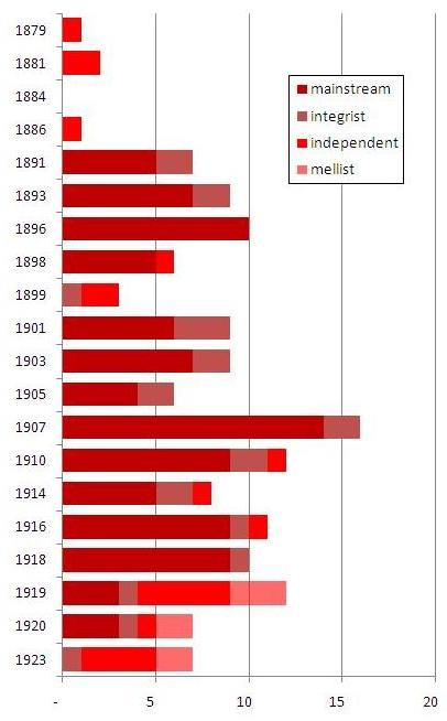 graph showing the number of Carlist deputies elected to Cortes (lower house) during the Restauration period.